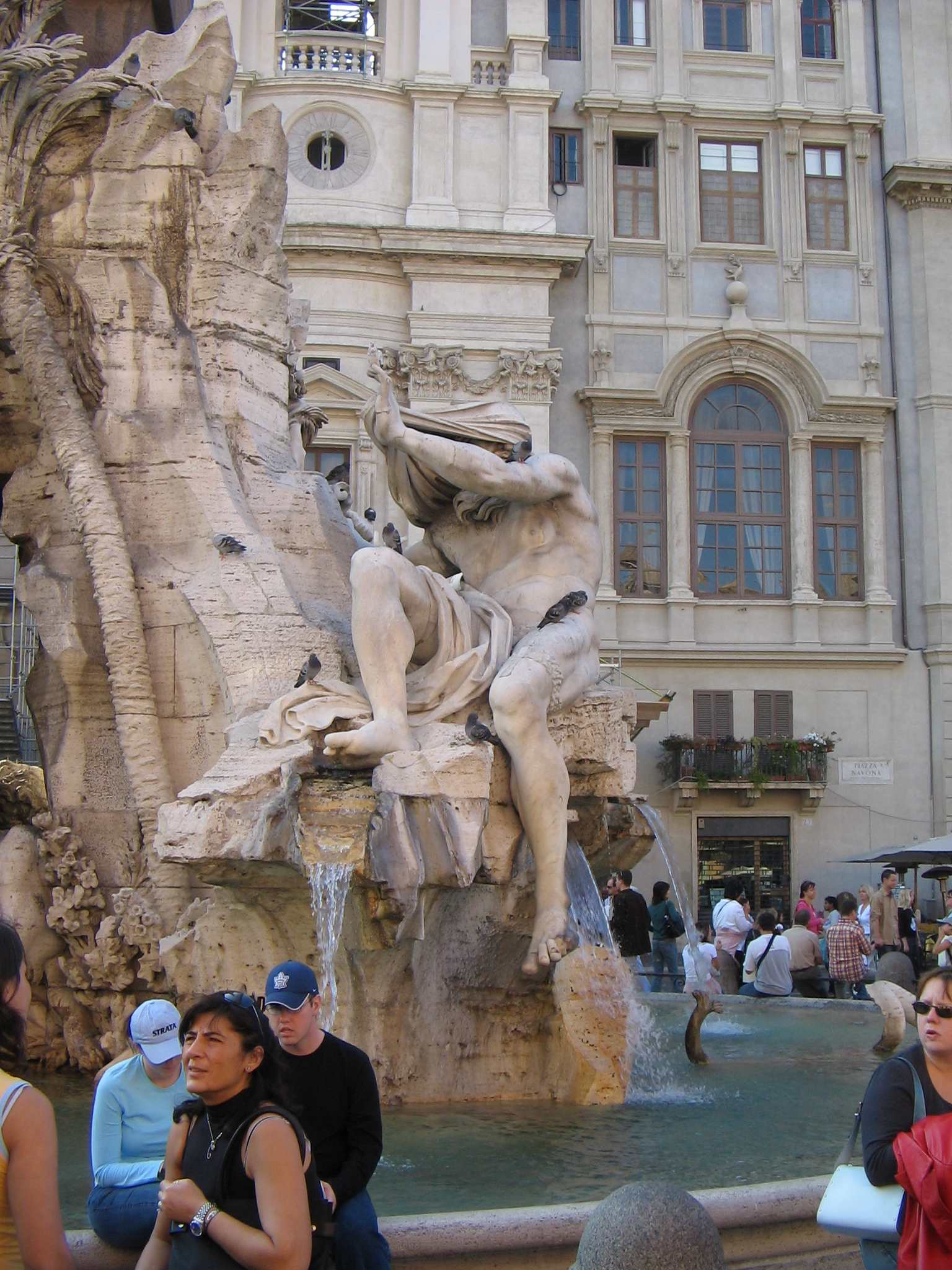 The river-god Nile (who is covering its face as a symbol of the fact that at that time the whereabouts of its springs were unknown) by Gianlorenzo Bernini (1651), from the Fontana dei Quattro Fiumi in Rome. Picture by Carlo Morino, 16/X/2005.